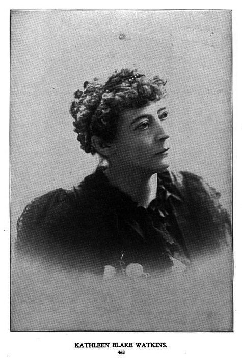 Photographic portrait of Irish-Canadian newspaper columnist Kathleen Blake Coleman (1856–1915) who wrote as "Kit Coleman". From Famous American Men and Women: A Complete Portrait Gallery of Celebrated People, Whose Names Are Prominent in the Annals of the Times. Edited by Stanley Waterloo and John Wesley Hanson, Jr. Chicago, IL: Wabash Publishing House, 1896: p. 463